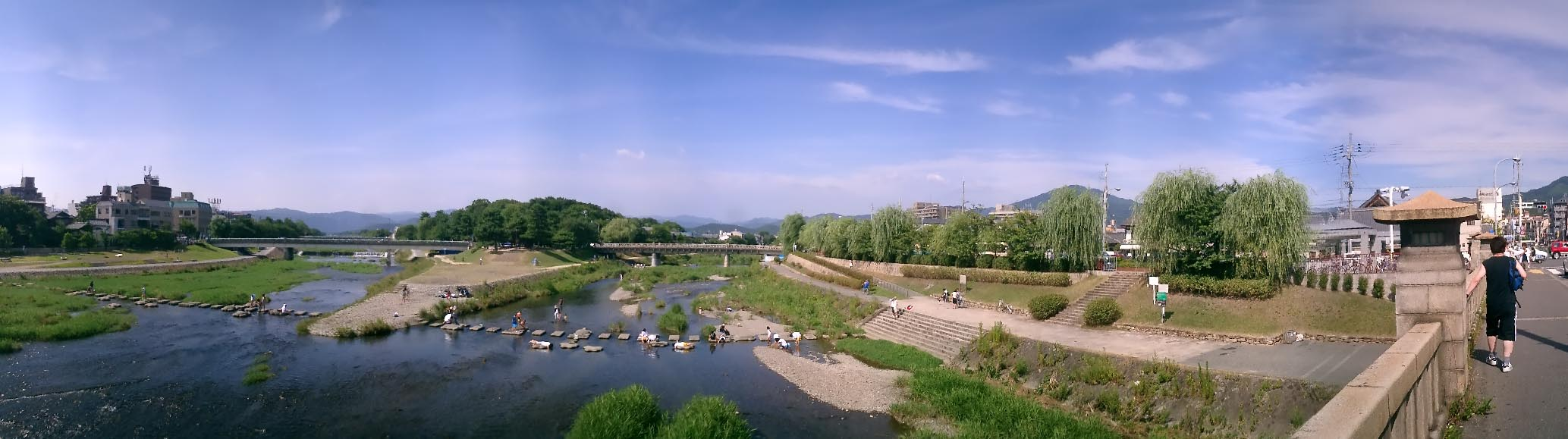 Kyoto Shimogamo point where the two rivers meet